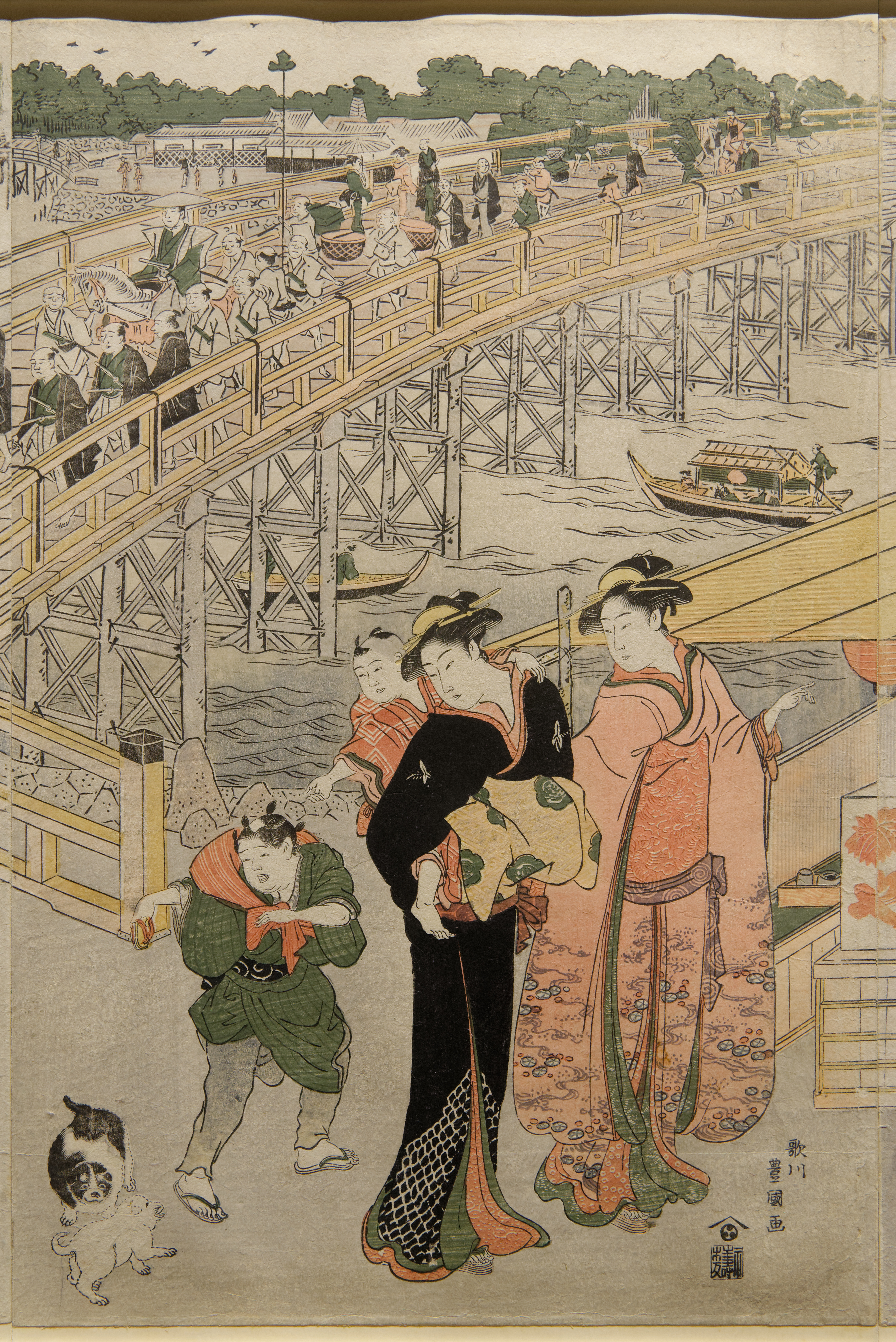 Middle leaf from Ryōgoku Bridge in Edo. Polychromic woodblock printing (nikishi-e), oban polyptych.